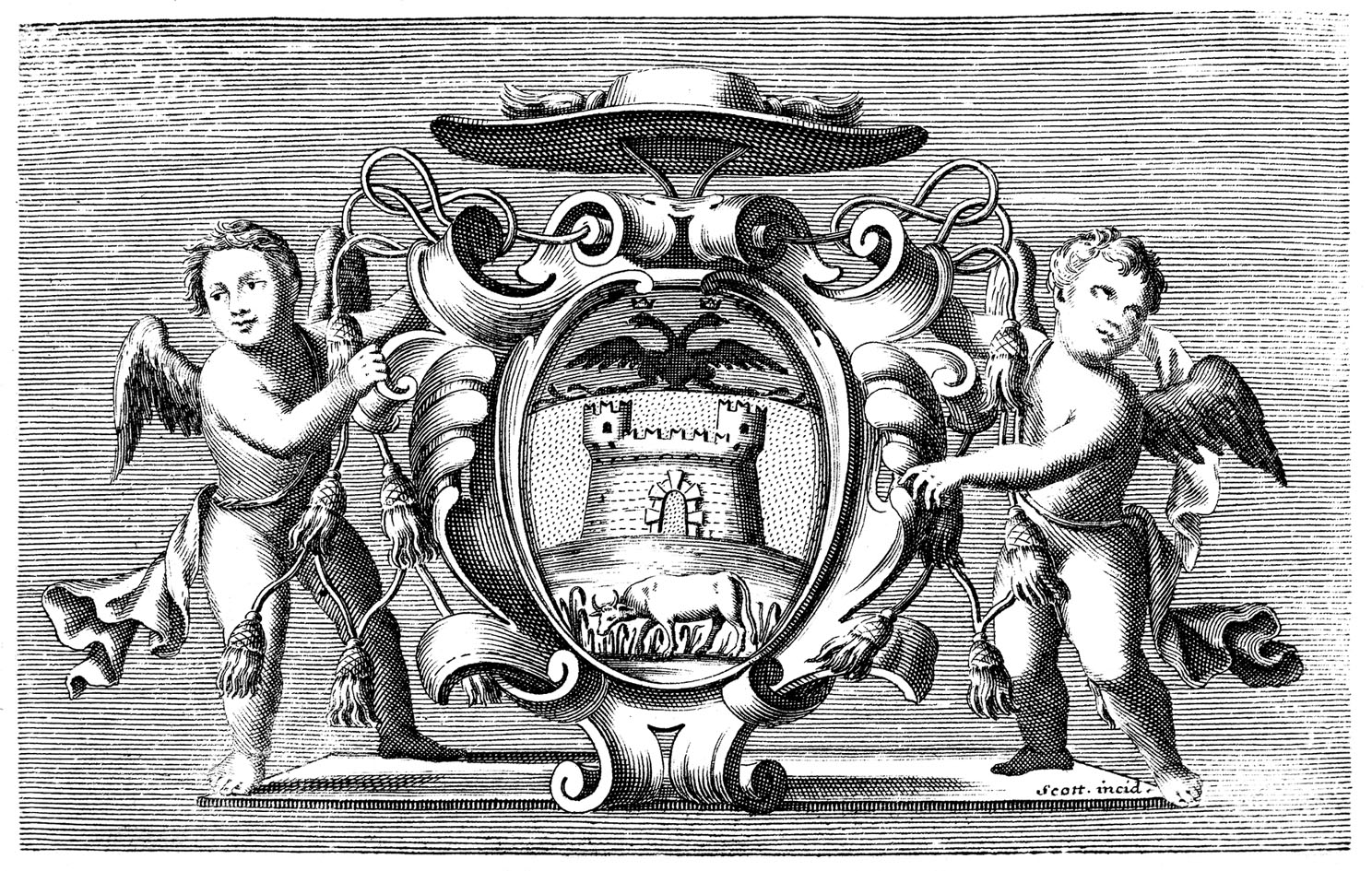 Coat of arms of the bishop of Asti Innocenzo Milliavacca (1693 - 1714)